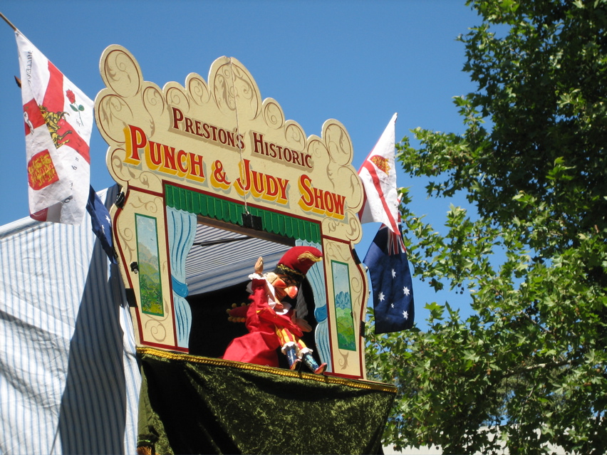 Preston's Historic Punch & Judy Show (booth with flags), AdelaidePunch & Judy Show